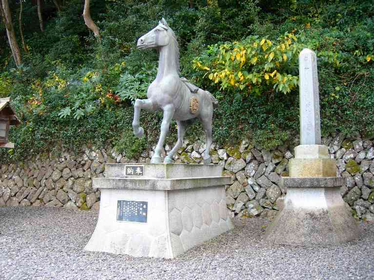 A bronze statue of the sacred horse (shinme, 神馬) in Funakoshi-jinja, at Daiou-Funakoshi, Shima city, Mie prefecture Japan.